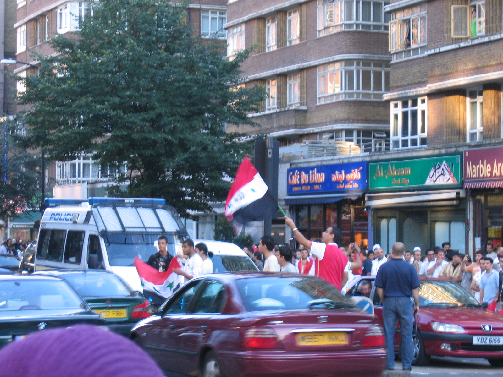 Celebrating Iraqis (and others) on Edgeware Road, London after the Iraq national football team beats the Saudi Arabian team to win the 2007 AFC Asian Cup